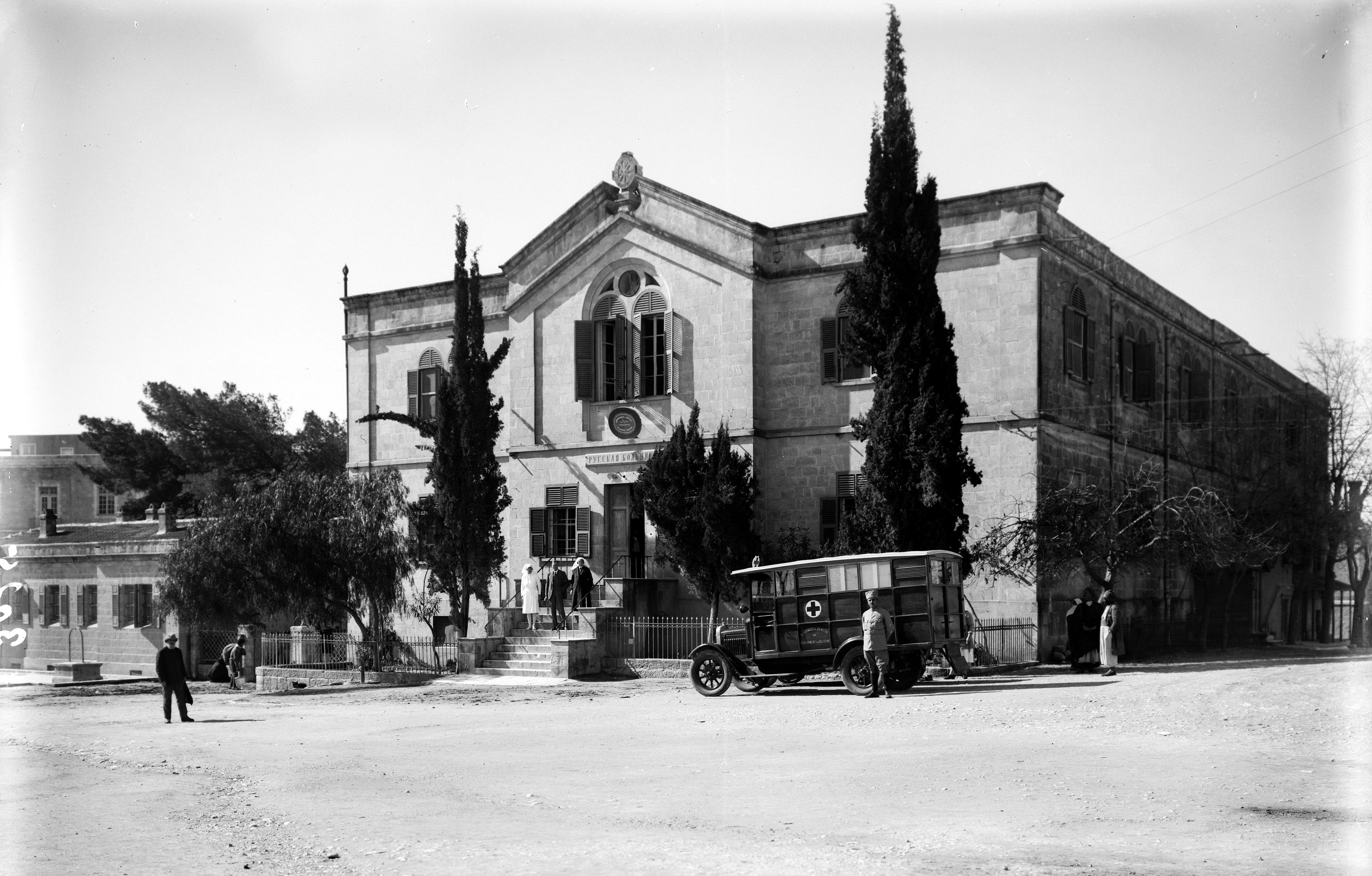 Newer Jerusalem and suburbs. The Municipal Hospital in Russian Compound. (Cropped from original) Original Information: TITLE: Newer Jerusalem and suburbs. The Municipal Hospital in Russian Compound. CALL NUMBER: LC-M32- 3025[P&P] REPRODUCTION NUMBER: LC-DIG-matpc-02579 (digital file from original photo) RIGHTS INFORMATION: No known restrictions on publication. MEDIUM: 1 negative : glass, dry plate ; 5 x 7 in. CREATED/PUBLISHED: [approximately 1920 to 1933] CREATOR: American Colony (Jerusalem). Photo Dept., photographer. NOTES: Title from: Catalogue of photographs & lantern slides ... [1936?]. Date from Matson LOT cards. Gift; Episcopal Home; 1978. SUBJECTS:Jerusalem. FORMAT: Dry plate negatives. PART OF: G. Eric and Edith Matson Photograph Collection REPOSITORY: Library of Congress Prints and Photographs Division Washington, D.C. 20540 USA DIGITAL ID: (digital file from original photo) matpc 02579 CONTROL #: mpc2004004901/PP